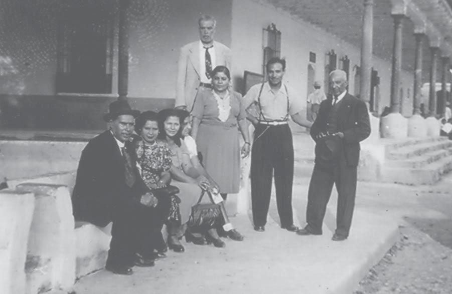 Brothers Narciso Chavarría. Rodolfo Narciso Chavarría (atrás) en 1947